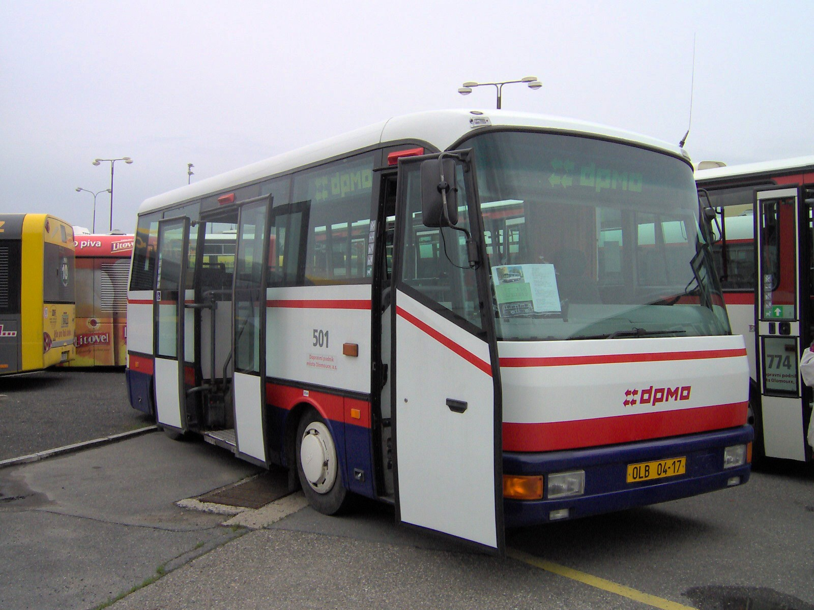 SOR B 7,5 in bus depot, Olomouc, Czech Republic